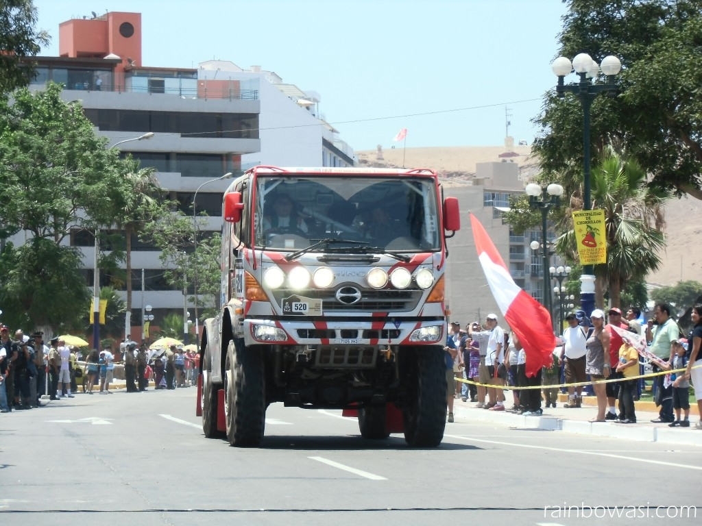 Yoshimasa Sugawara and his crew with Hino truck during first stage of 2013 Dakar Rally